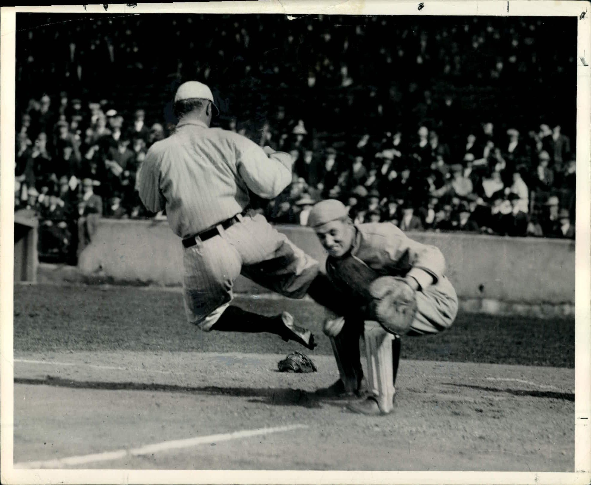 Tigers great Ty Cobb slides into St. Louis Browns catcher Paul Krichell in 1912